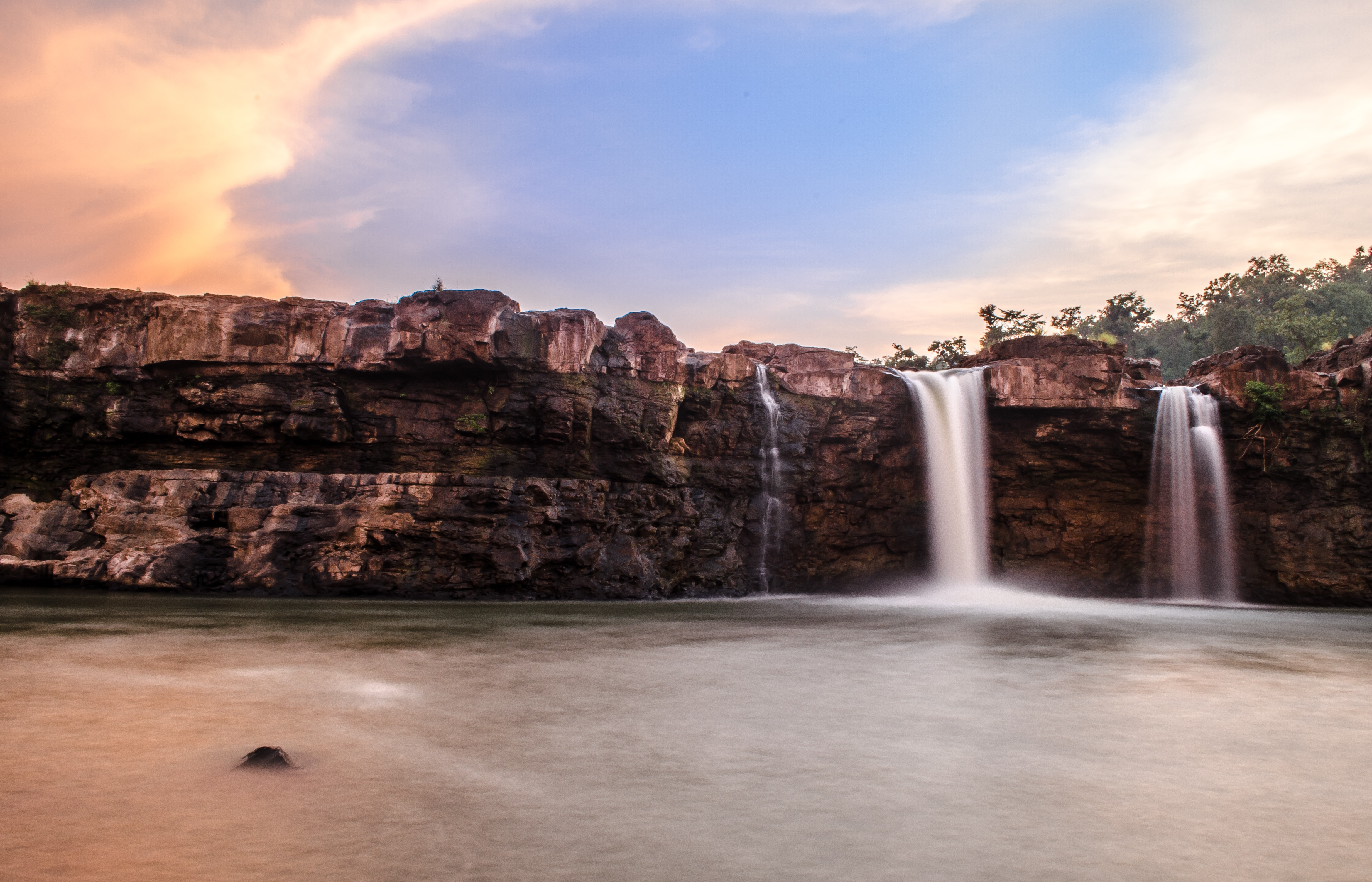 The Image shows Gira Fall, Situated in the jungles of the Dang, Gujarat state, India.